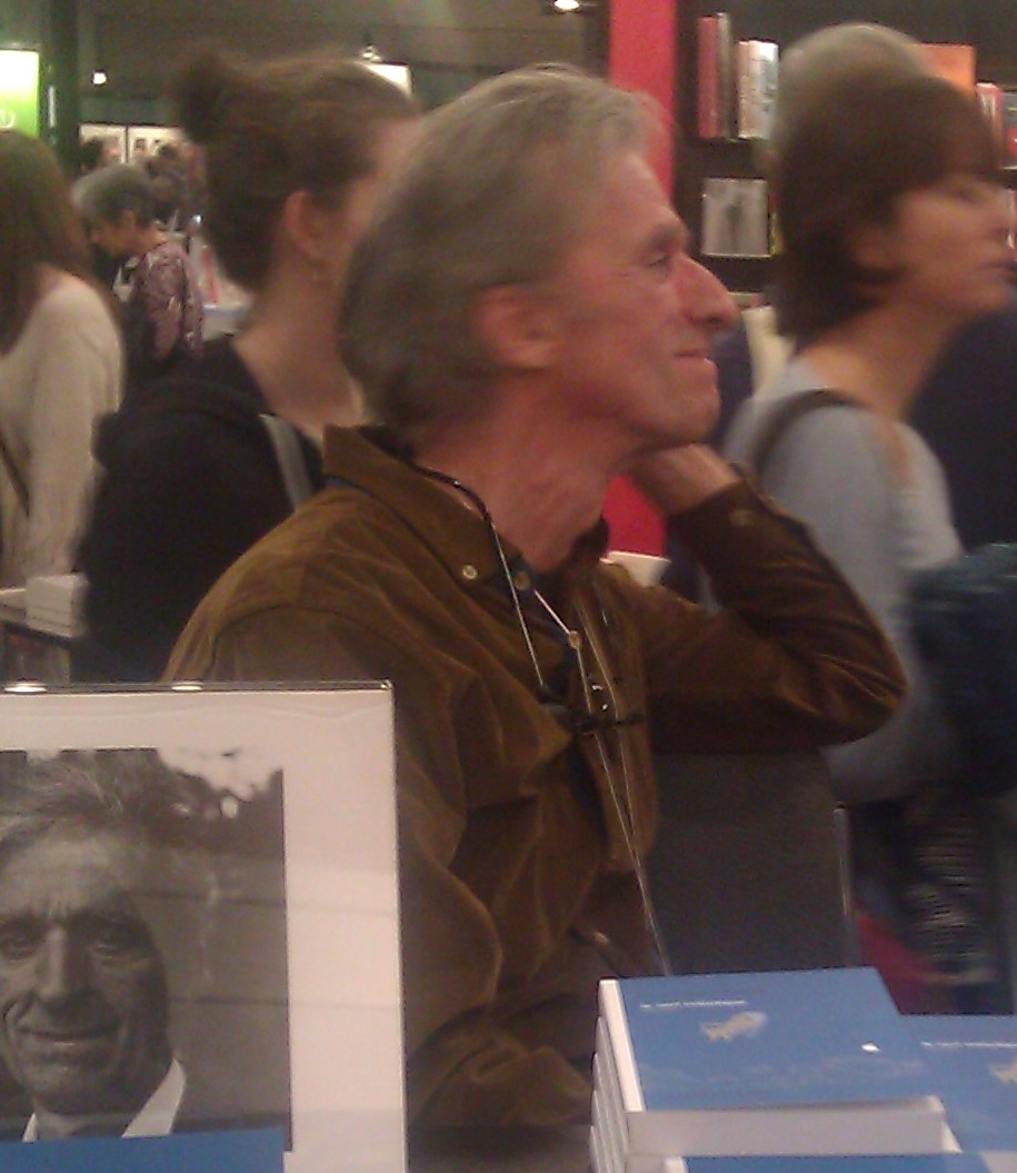 Robert Marcel Lepage photographed in Montreal, Quebec, Canada at the Salon du livre de Montréal 2016.